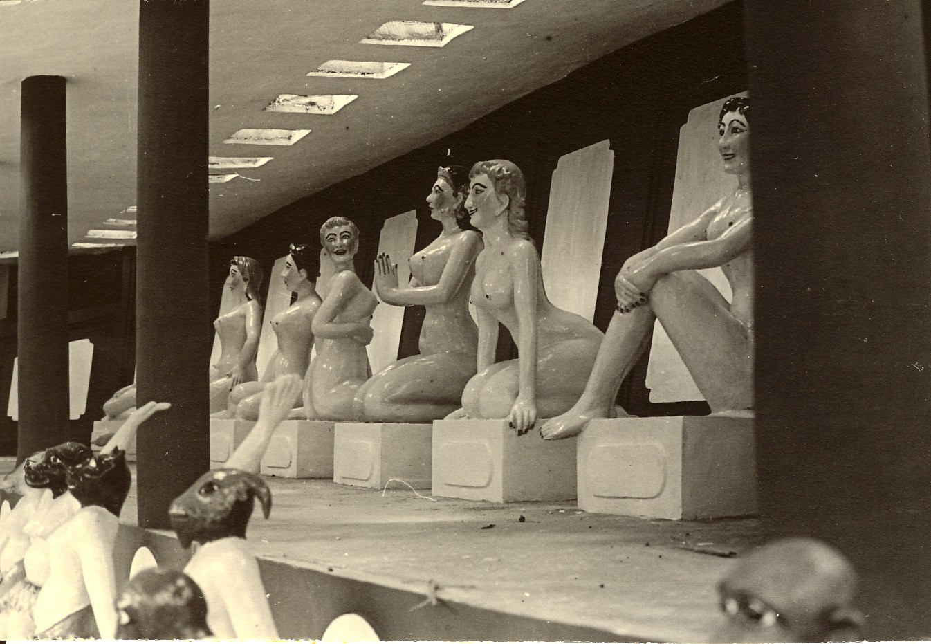 Tiger Balm Gardens, more formally known as Aw Boon Haw Gardens, were the creation of Aw Boon Haw, who made his fortune from the sale of the popular curative balm. Constructed in 1935 at a cost of HK$16 million, the almost seven and a half acre (three hectares) site is a grotesque and surrealistic conglomeration of colorful concrete animals, pagodas, religious figures, and numerous other garish objects. Located in the midst of high-rise apartments in at the edge of Causeway Bay, the gardens are a gaudy version of what some have called a Chinese Disneyland.